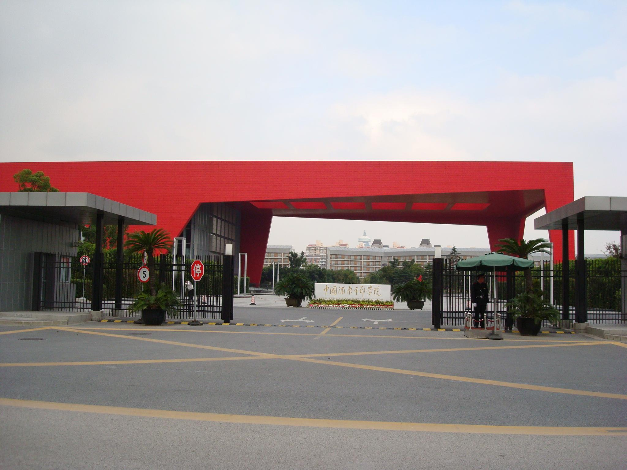 The gate of the China Executive Leadership Academy in Pudong, Pudong New District/Area, Shanghai, P.R.China.